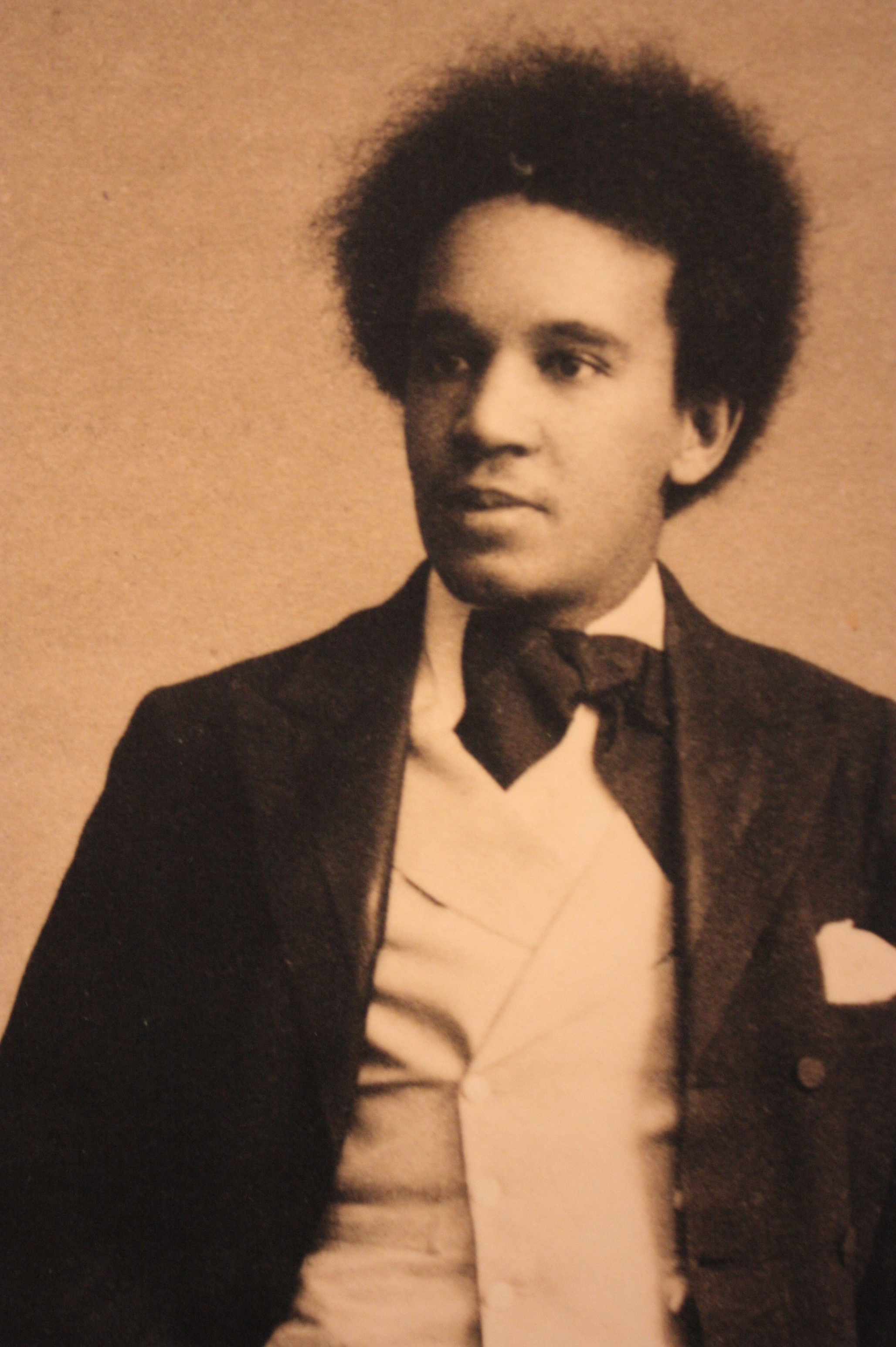 Portrait of British music composer, Samuel Coleridge-Taylor.